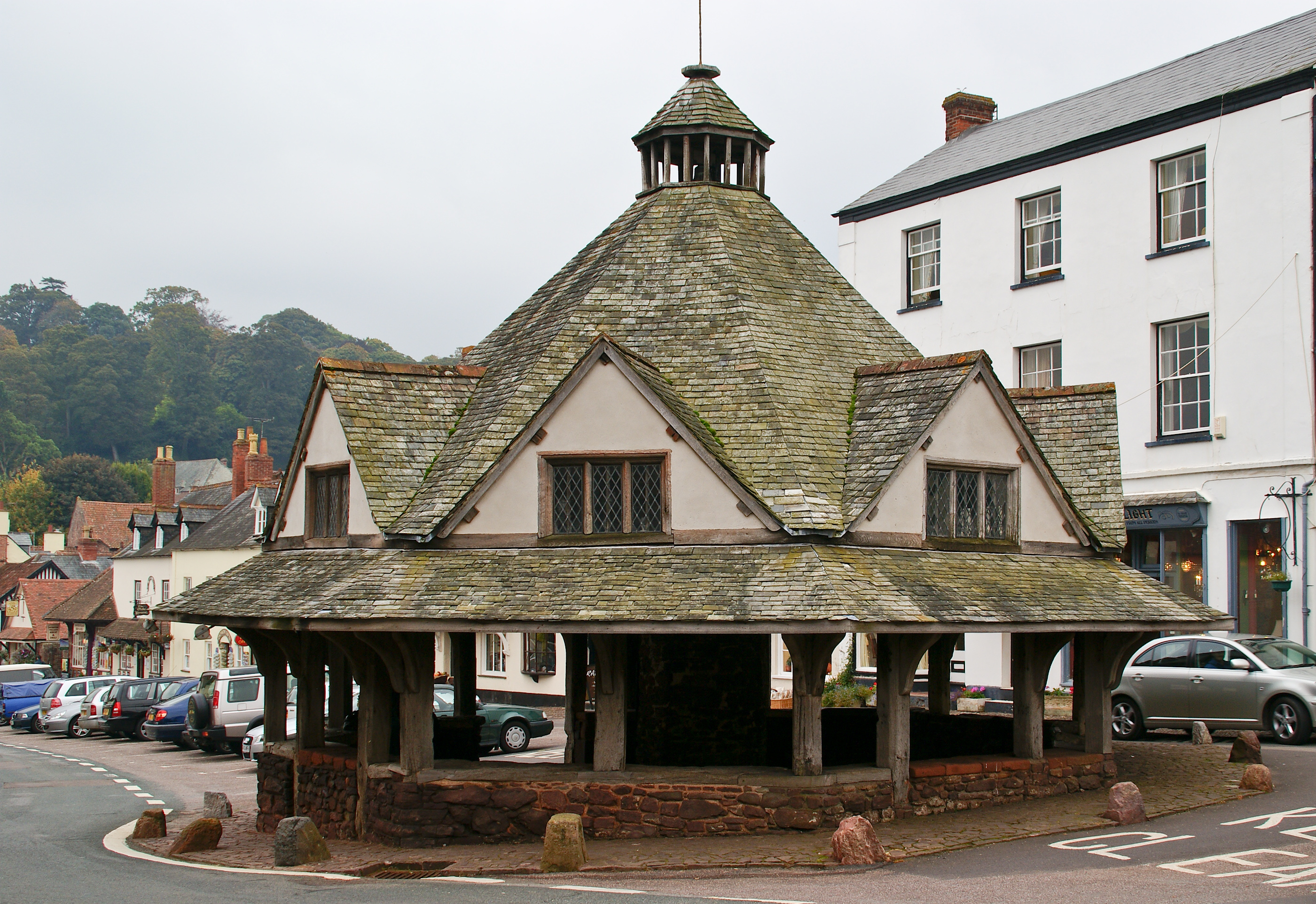 The Yarn Market in Dunster, a 17th century structure in Somerset, UK.